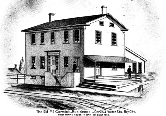 Trombley House (McCormick House), first frame structure in Bay County MI